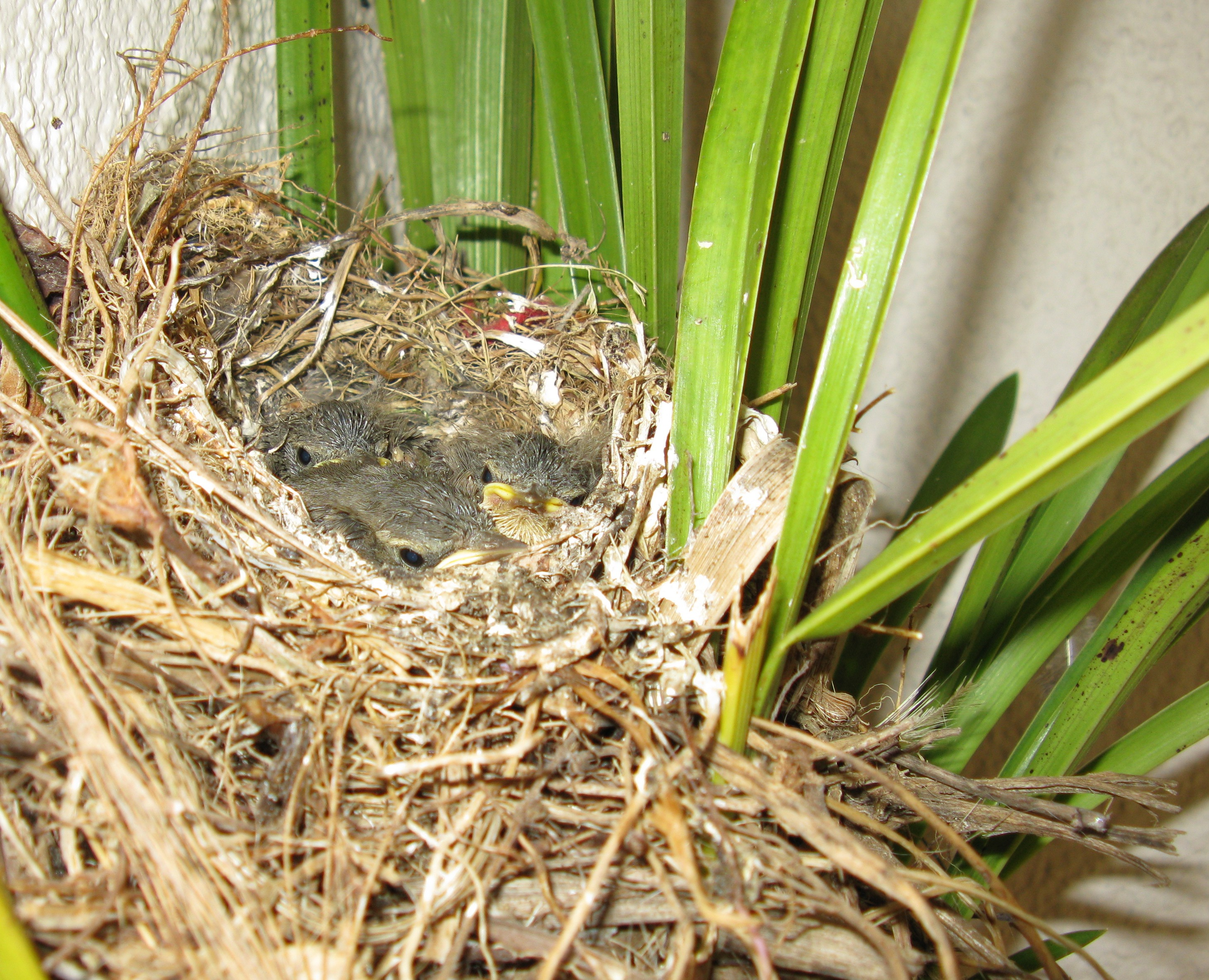 Cape Wagtail nestlings 13 days old Motacilla capensis